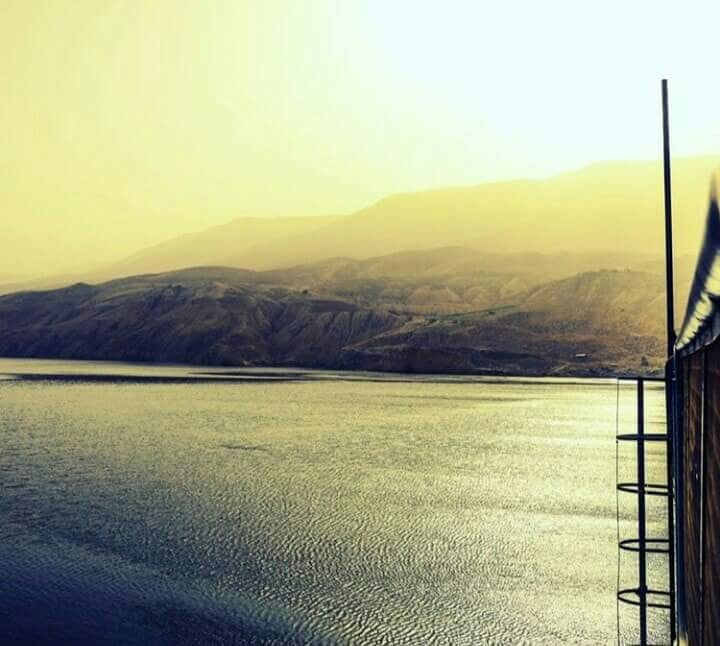 This view in Al- Mujib Dam _Jordan